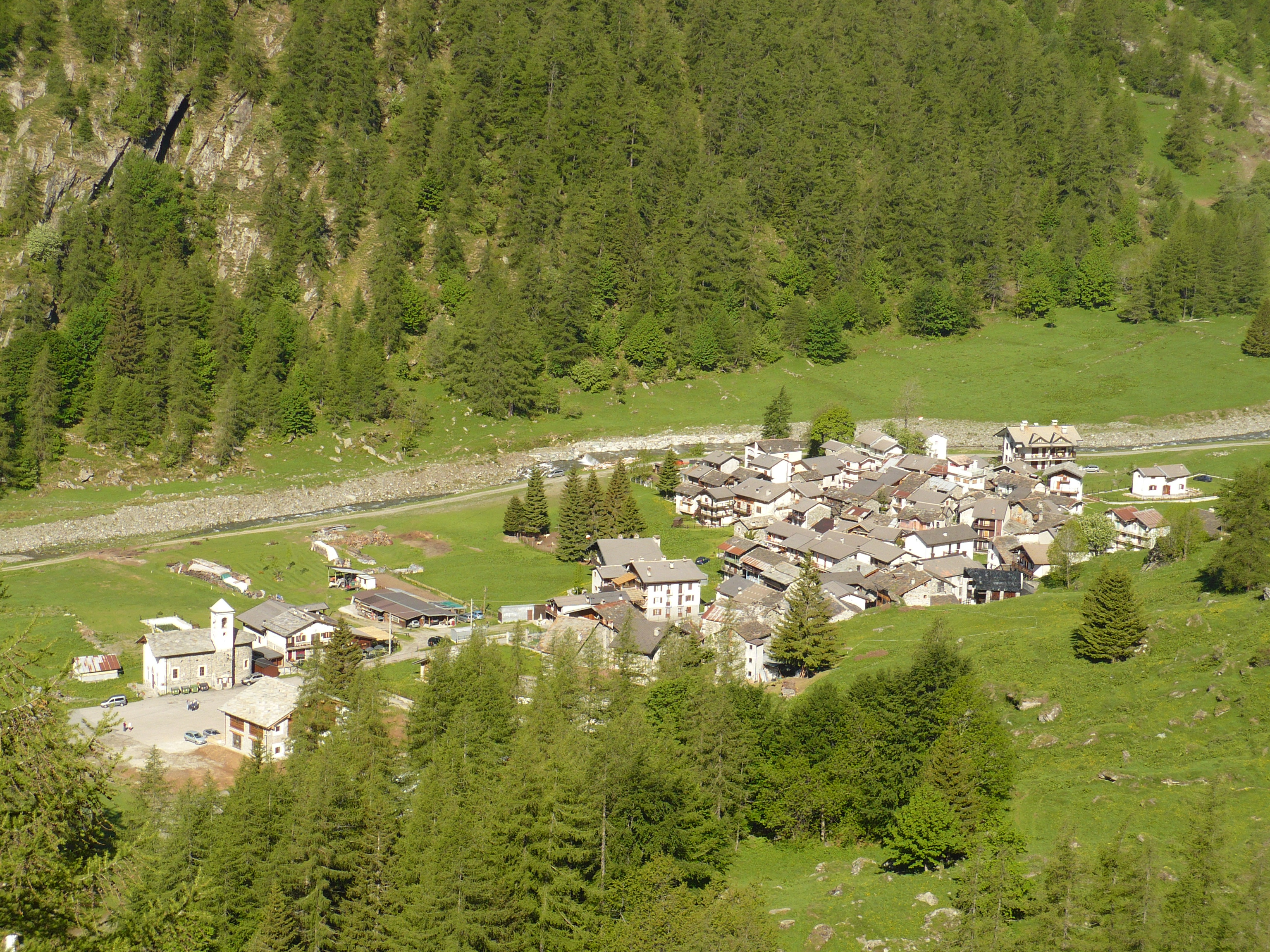 Piamprato - Soana Valley - Province of Turin - Italy